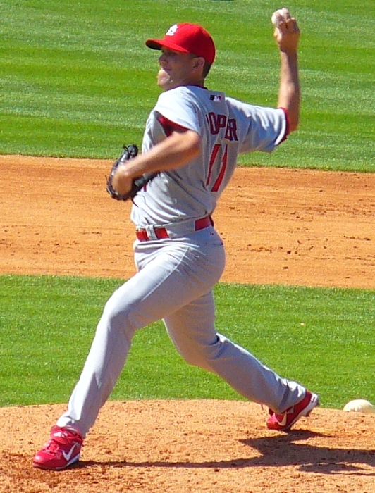 Braden Looper 03:51, 19 July 2007 . . Metsfan7 . . 532×700 (356,430 bytes)